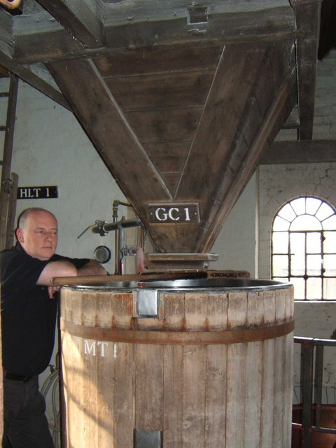 Grist & Mash This is the grist case and mash tun of the Sarah Hughes Brewery. A tower brewery needs no pumps all the work is done by gravity. The first stage of brewing is to hoist sacks of malted barley up and into the Grist Case (the conical wooden structure). This malt is mixed with hot liquor (water boiled over night in a tank). Brewing liquor is water for brewing with the correct hardness for beer making. Beer is made with liquor the brewer will wash things with water although the water and liquor may be chemically identical! The malt is mixed with the liquor in the cylindrical mash tun to make a kind of porridge. After an hour and a half the liquid (wort) in the mash tun is run off into 414241